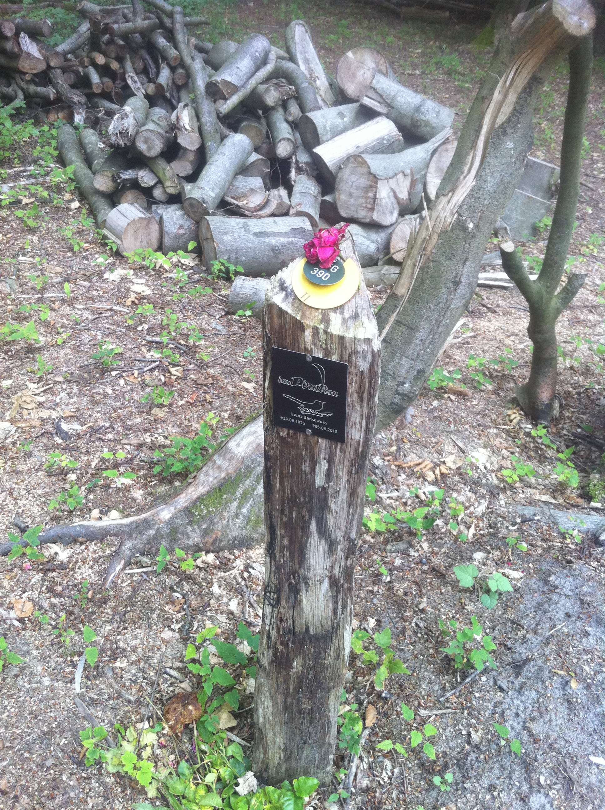 Urn grave in German forest after storm